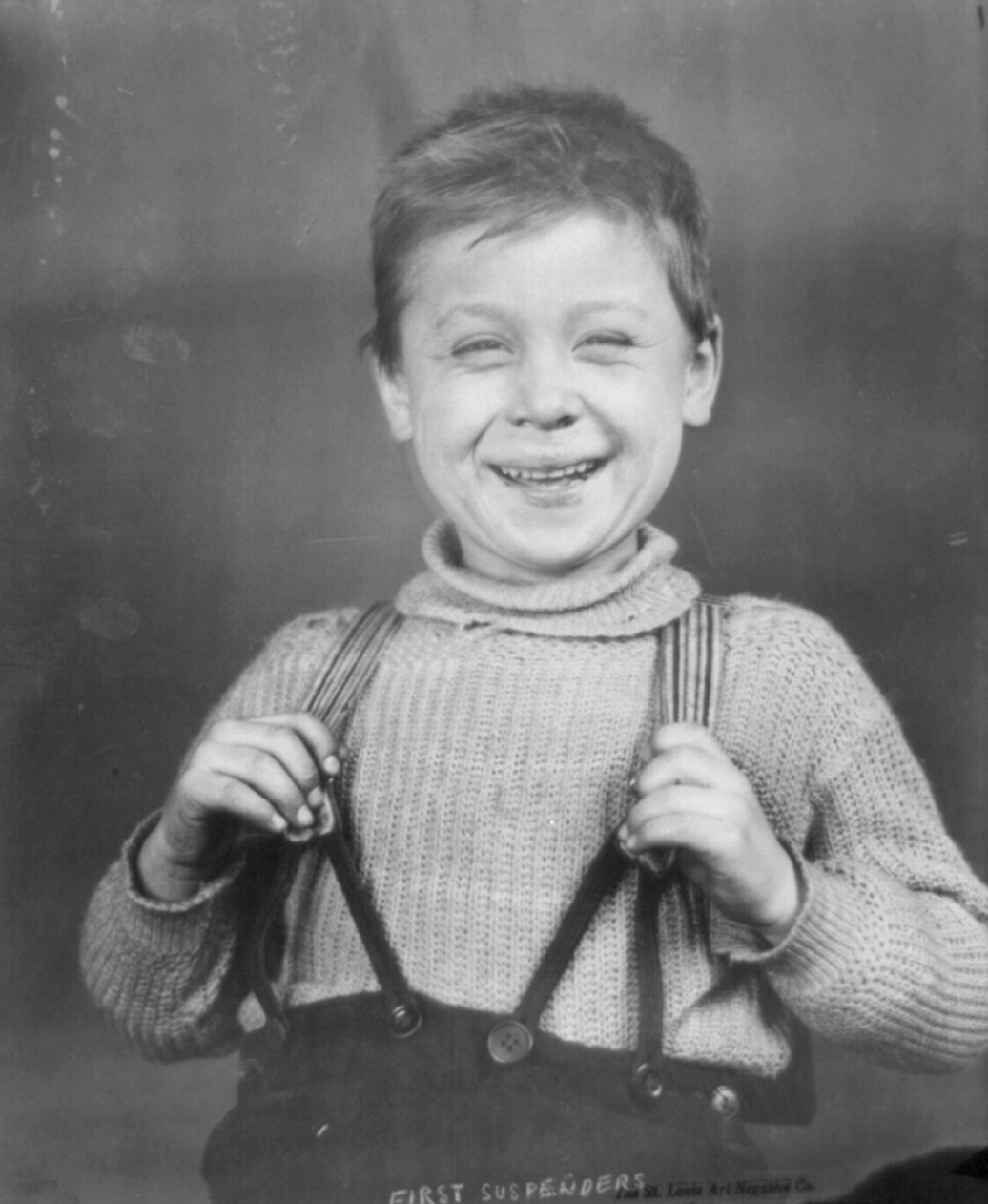 1/2 length view of boy with a big smile, holding his suspenders.